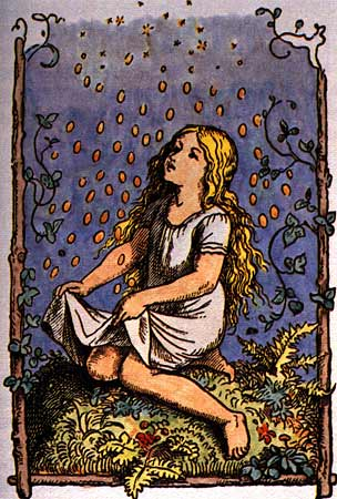 illustration of the Brothers Grimm fairy tale "The Star Money"